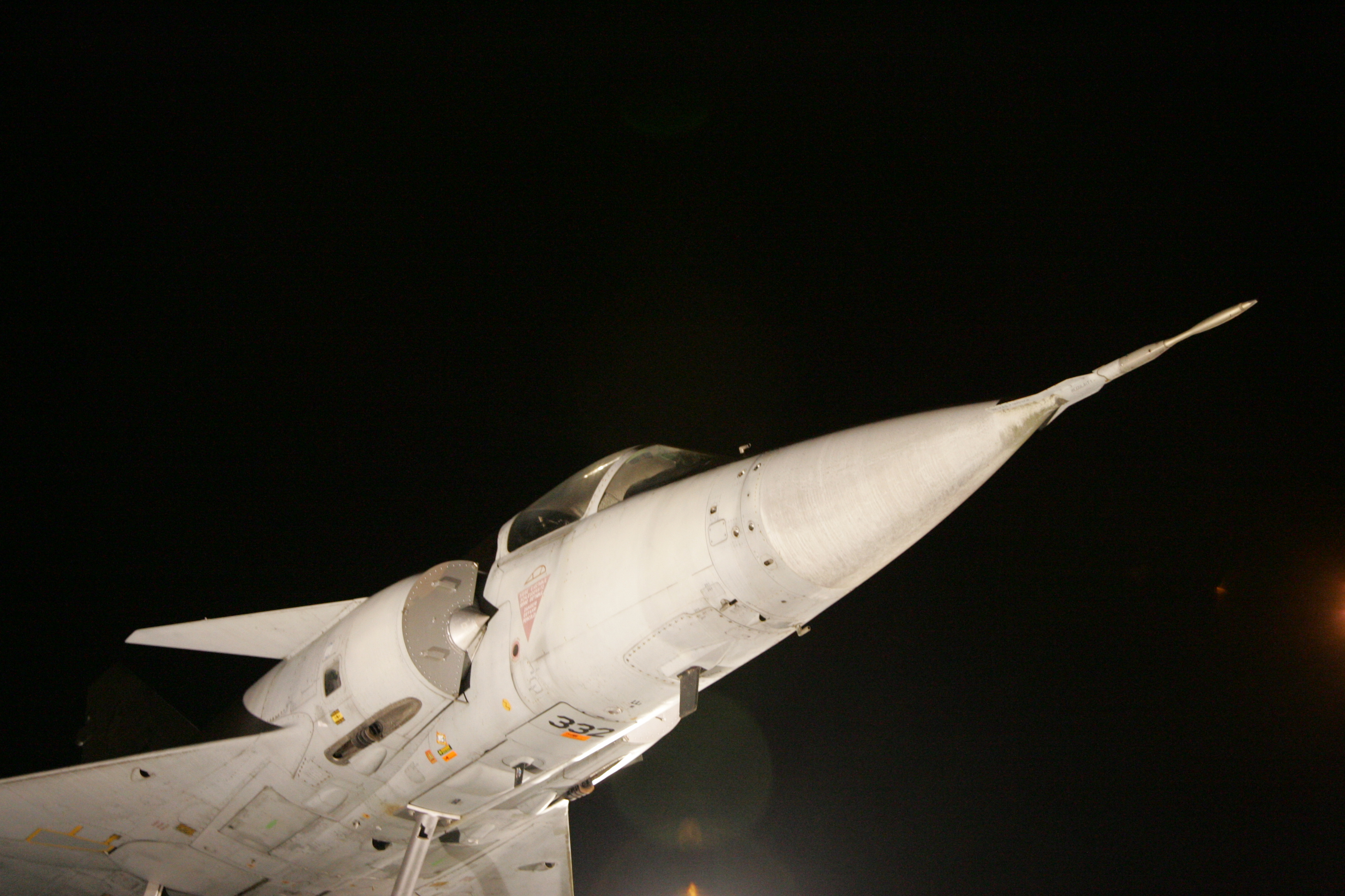 Mirage III of the Swiss Air Force